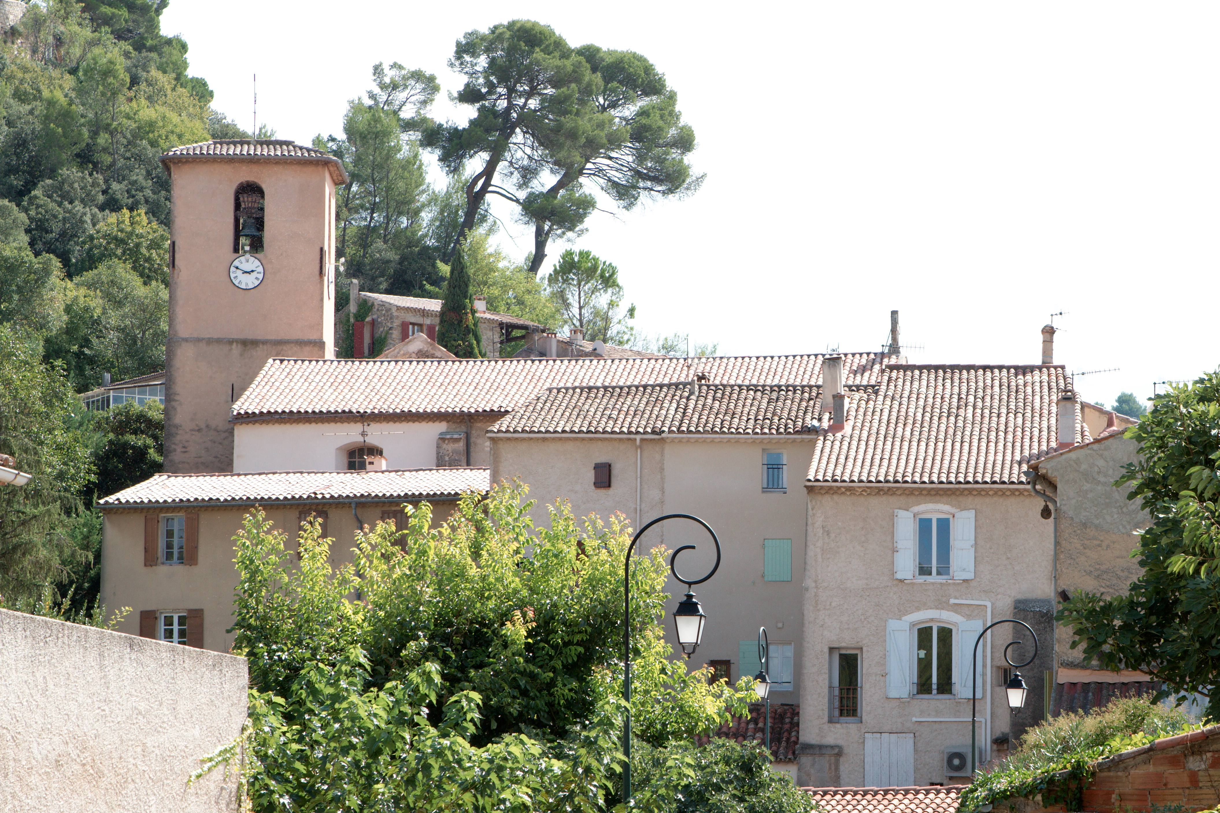 Meyrargues, Bouches-du-Rhône (France).